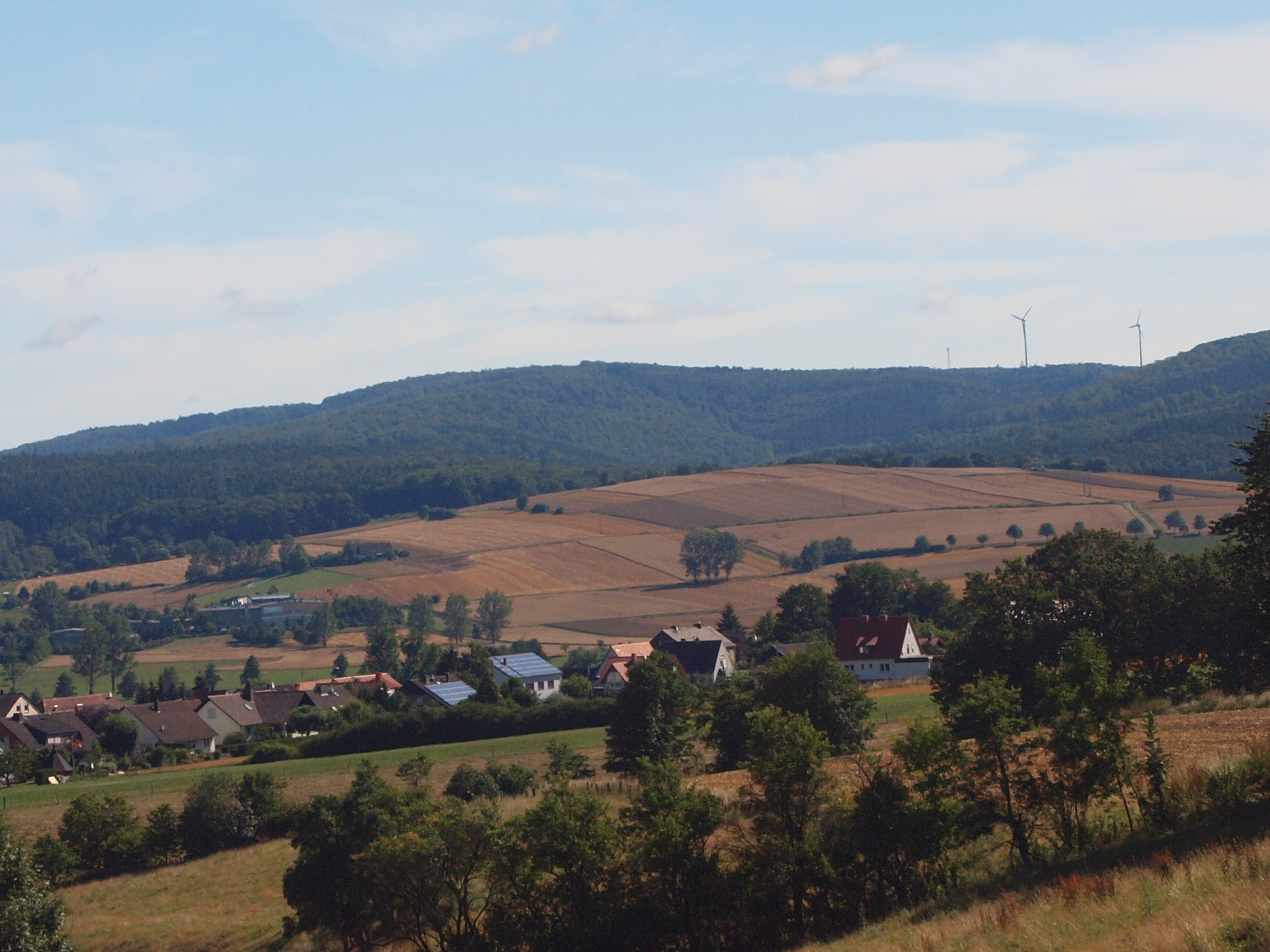 Northeastern view of the mountain "Toter Mann" im mountain range Seulingswald.